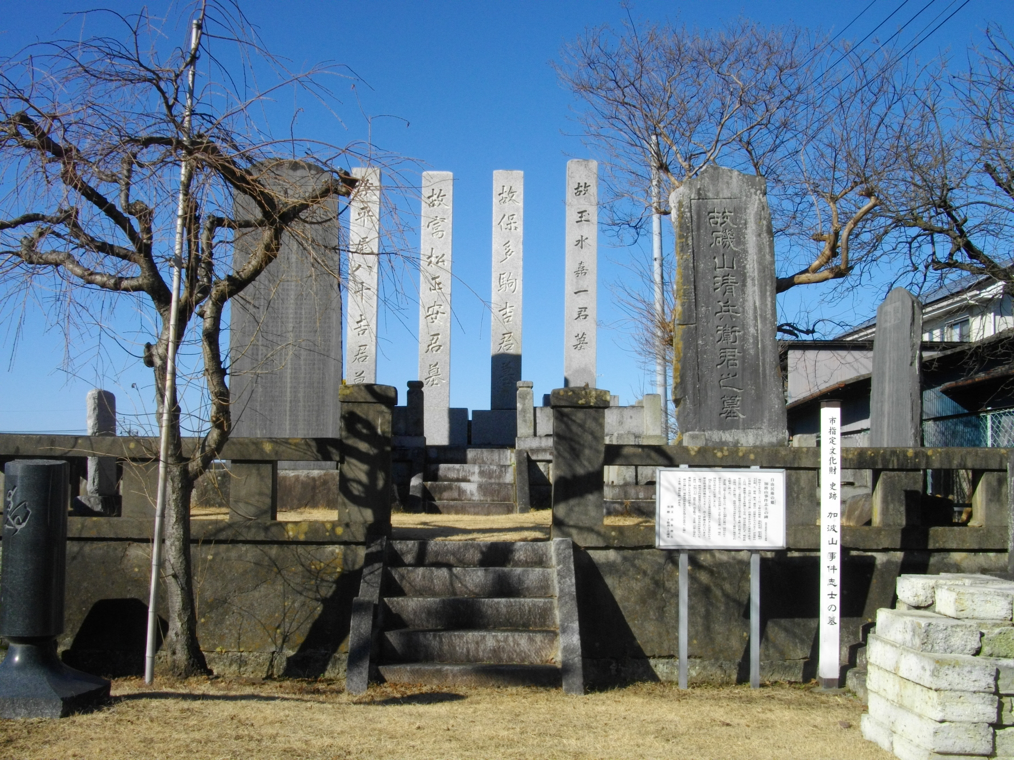 Graves of Kabasan Incident Members